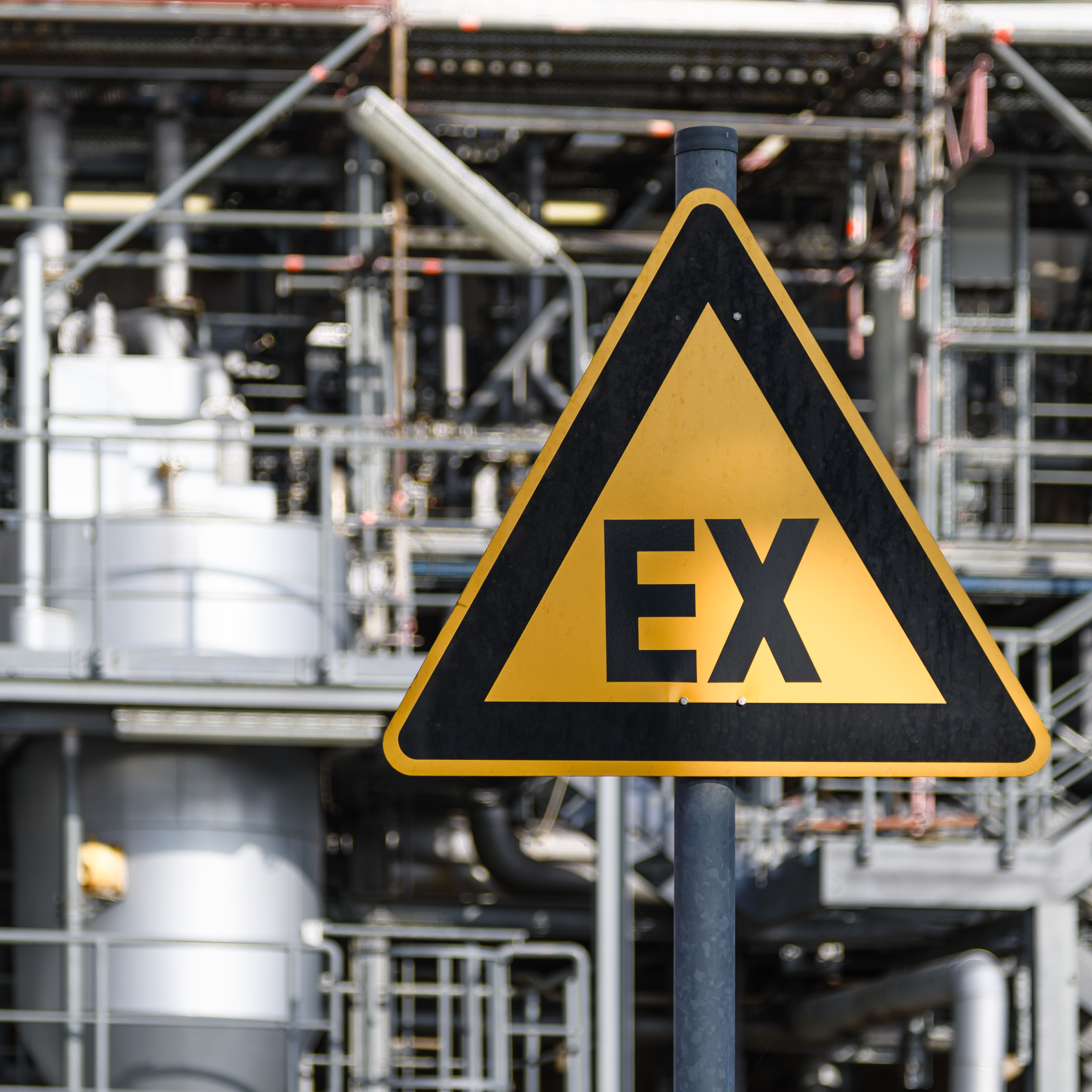 Cologne, Germany: Sign "Explosion Hazards" in a chemical plant